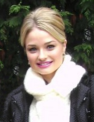 Hollyoaks actress Emma Rigby, with a fan.